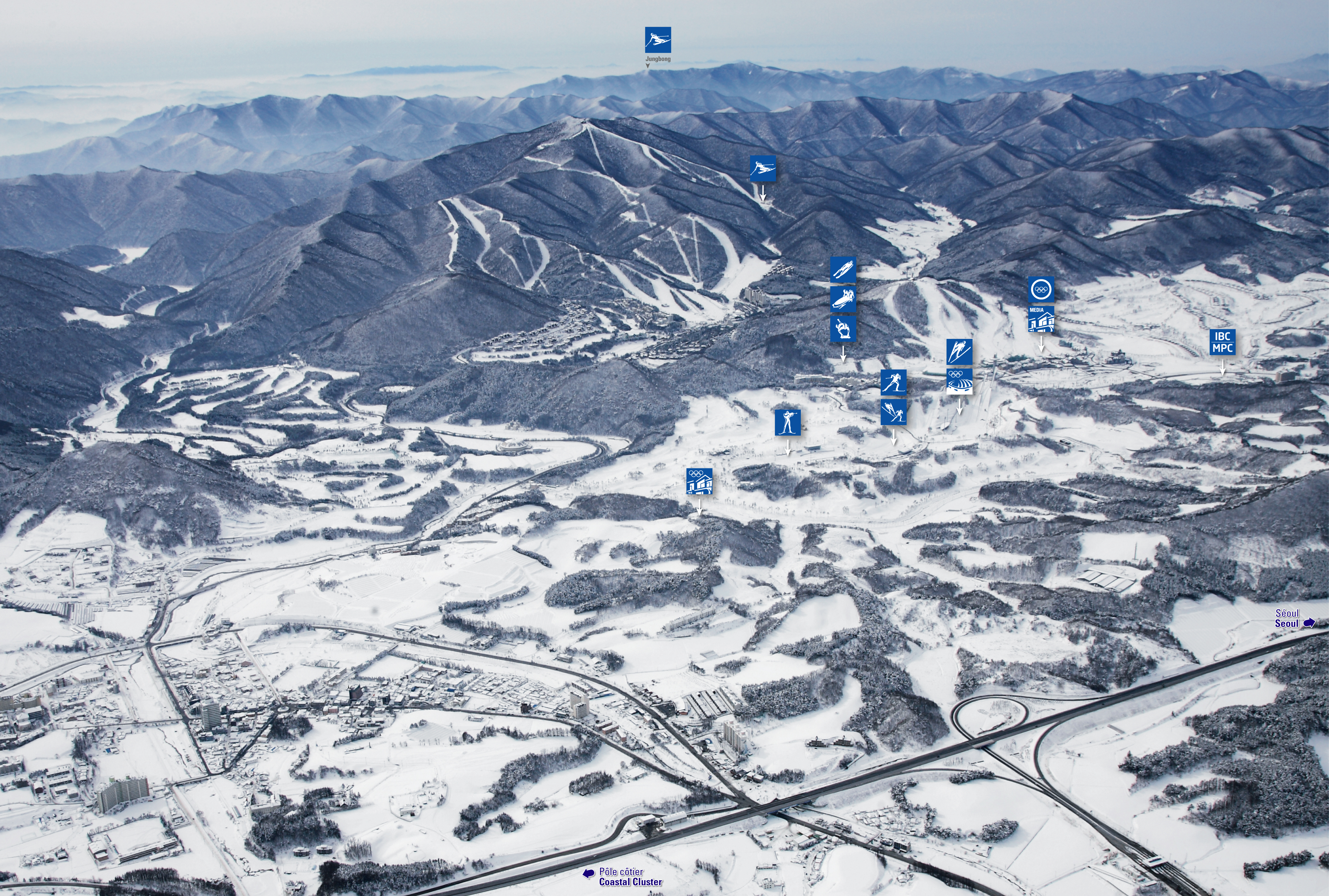 Pyeongchang will host the 2018 Winter Olympics after beating off Munich and Annecy as the IOC vote results are announced in Durban